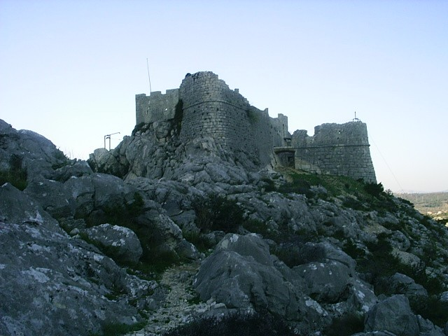 Fortica fortress near Omiš during sunrise, Croatia